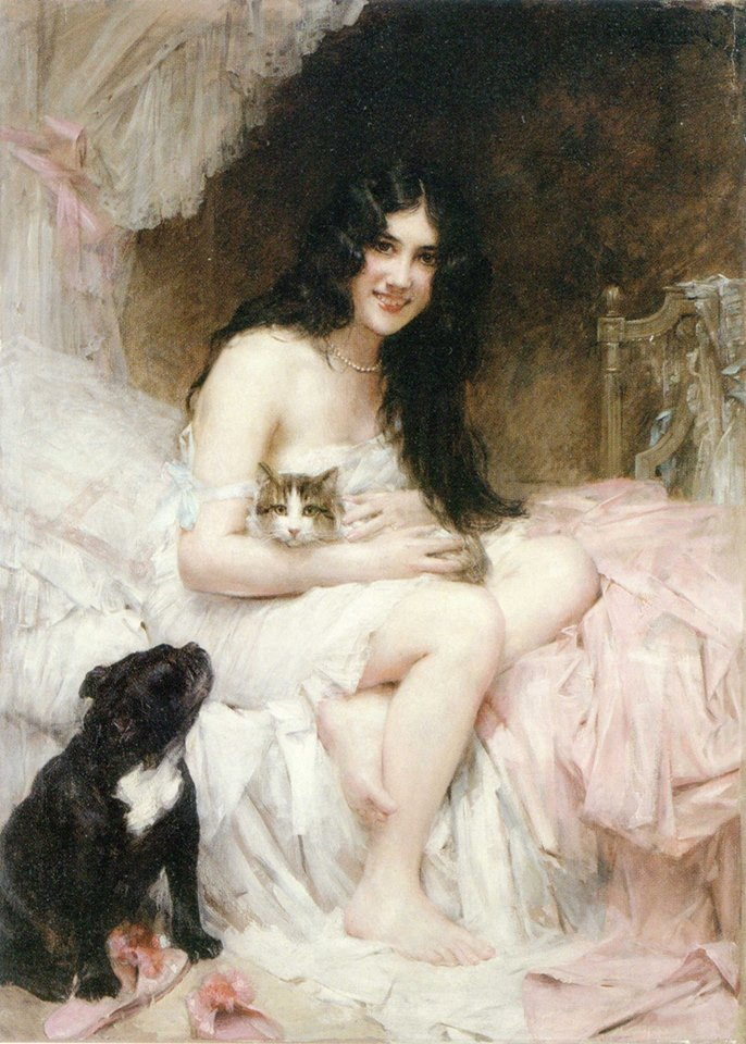 oil on canvas